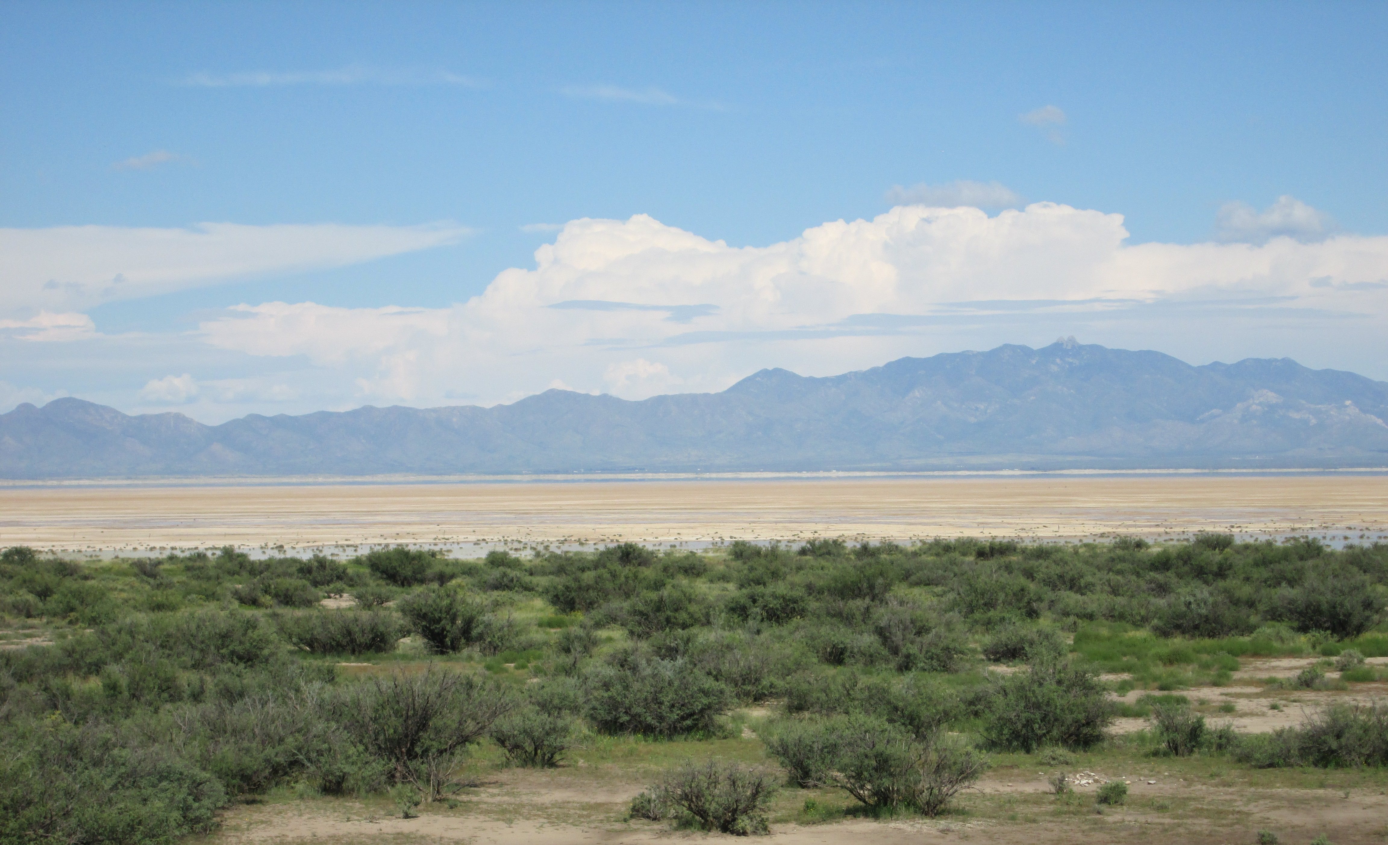 View facing east toward the Dos Cabezas Mountains from a point just east of Cochise, Arizona. In the forground is desert shrubland surrounding the Willcox Playa, the whitish/tan section in the middle.